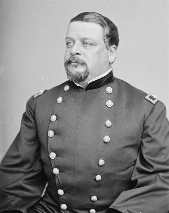 Alfred Gibbs, Col. 130th NY Inf Civil War glass negative collection, Library of Congress